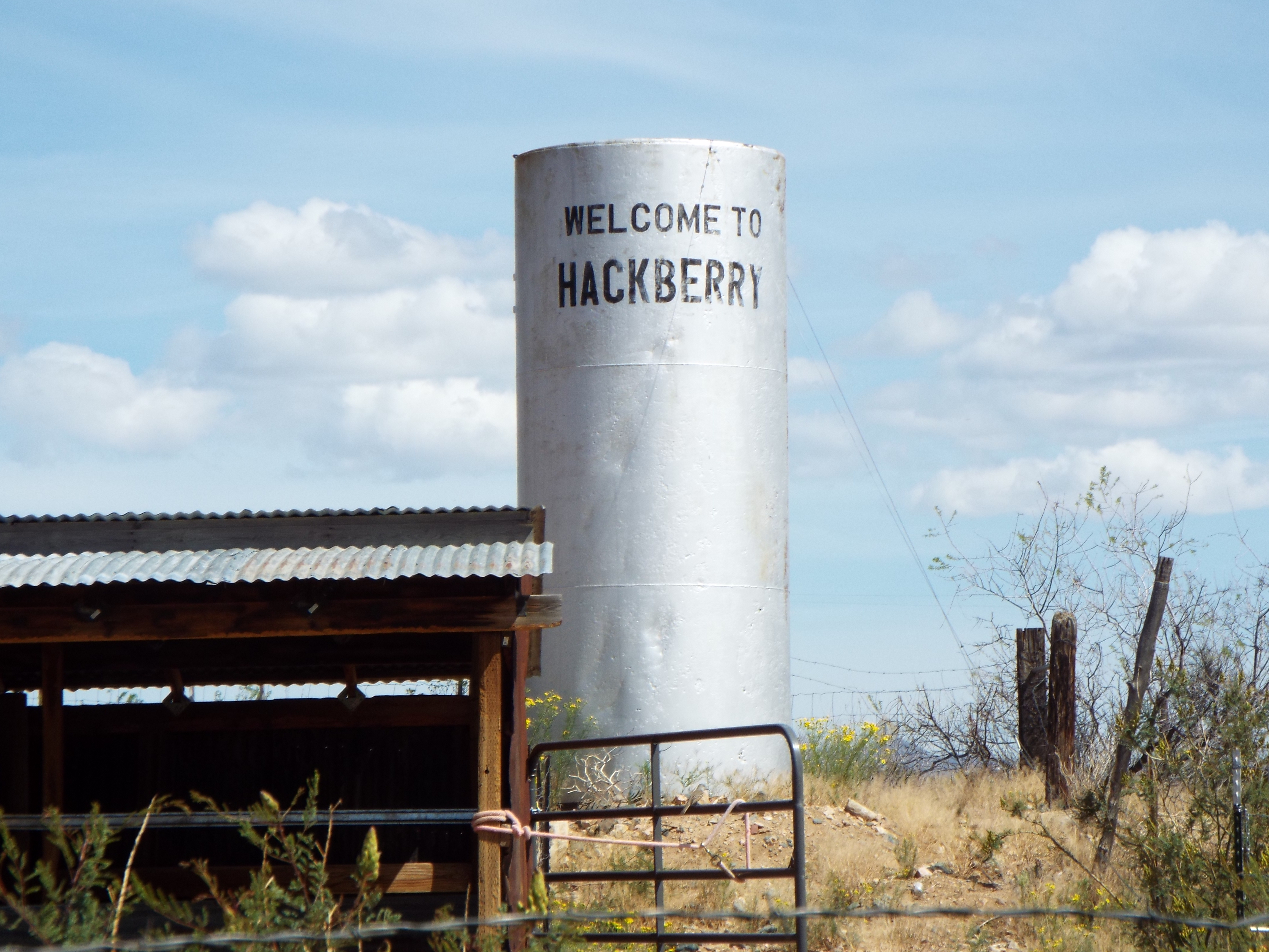 Hackberry Water Tower-1920 in Hackberry, Az